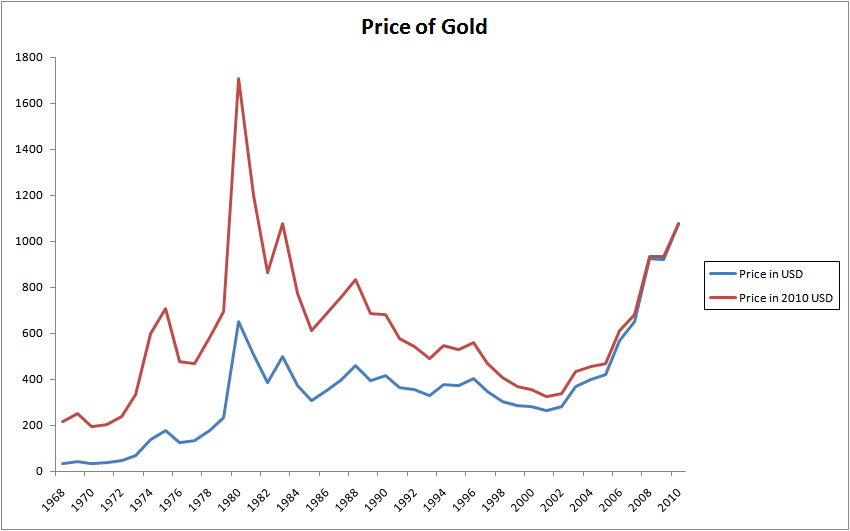 The historical price of gold (troy ounce) in USD from 1968 through 2010.